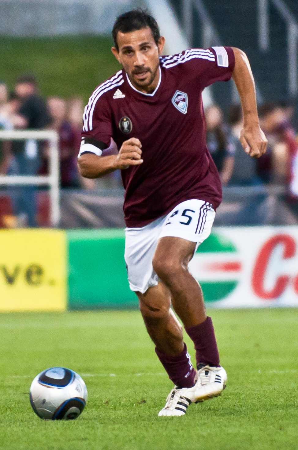 Photo of Pablo Mastroeni while playing with the MLS team Colorado Rapids in 2011.